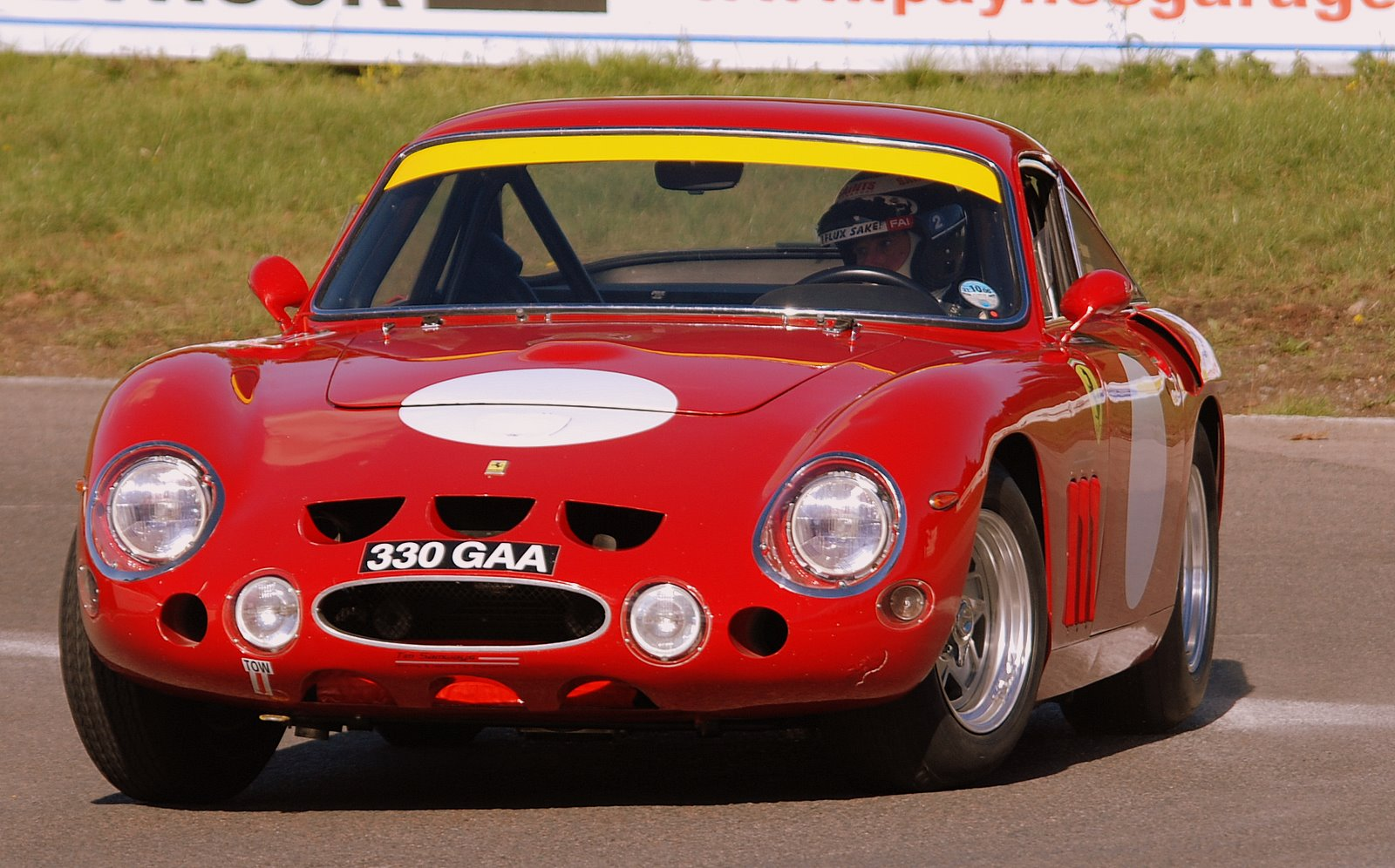 A Ferrari 330 LMB, testing at Mallory Park, September 2007. This car, in the hands of Mike Parkes in 1963, was the first ever to exceed 300 kph on the Mulsanne Straight at Le Mans.